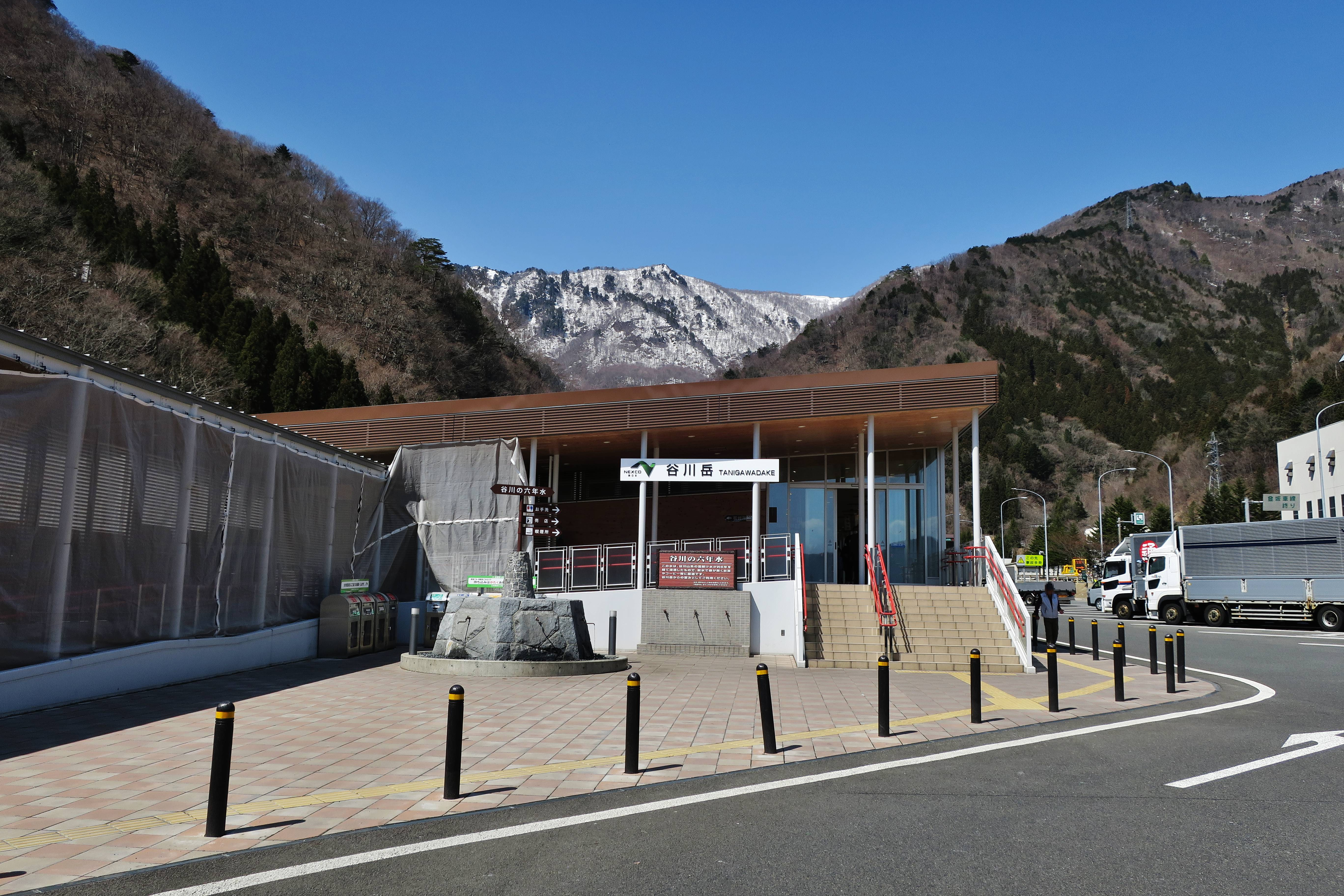 Tanigawadake Parking Area (down).